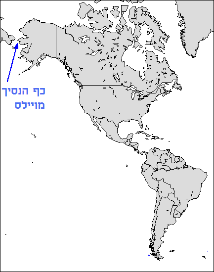 Location of Cape Prince of Wales Author: Public domain map from Online Map Creation [1]. I release my changes as public domain.